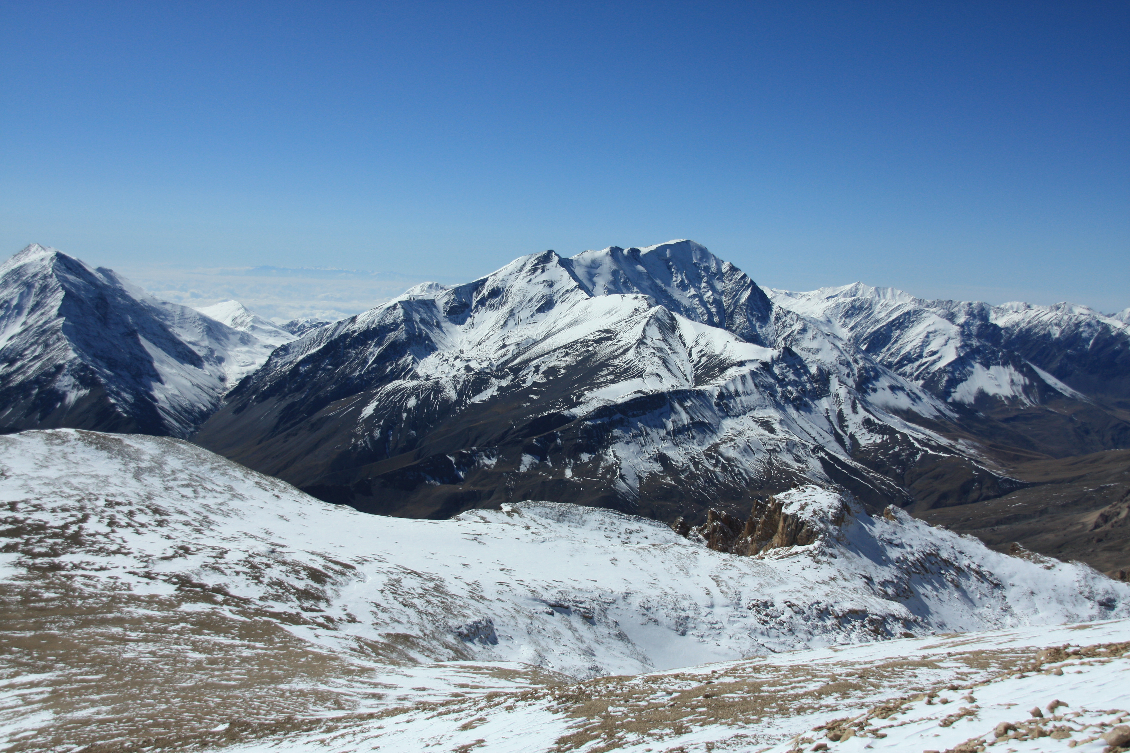 Bazardüzü, highest peak of Azerbaijan, as seen from Shahdag